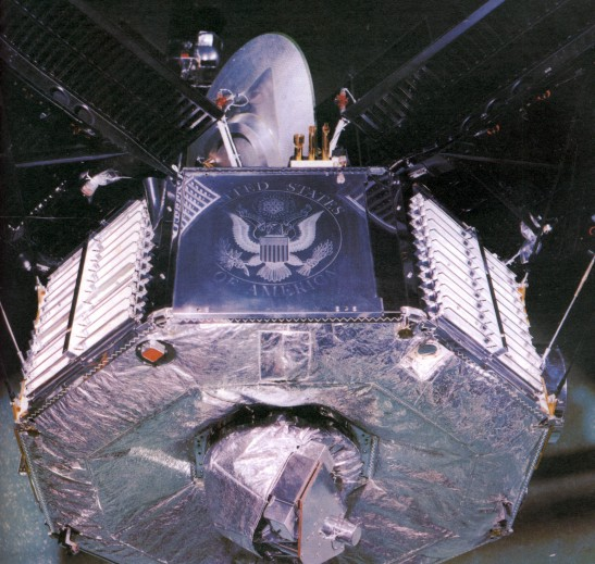 View of Mariner 4.